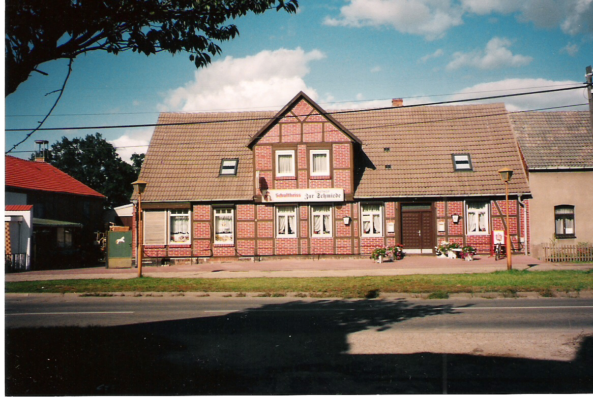 Postlin, village in Brandenburg, germany